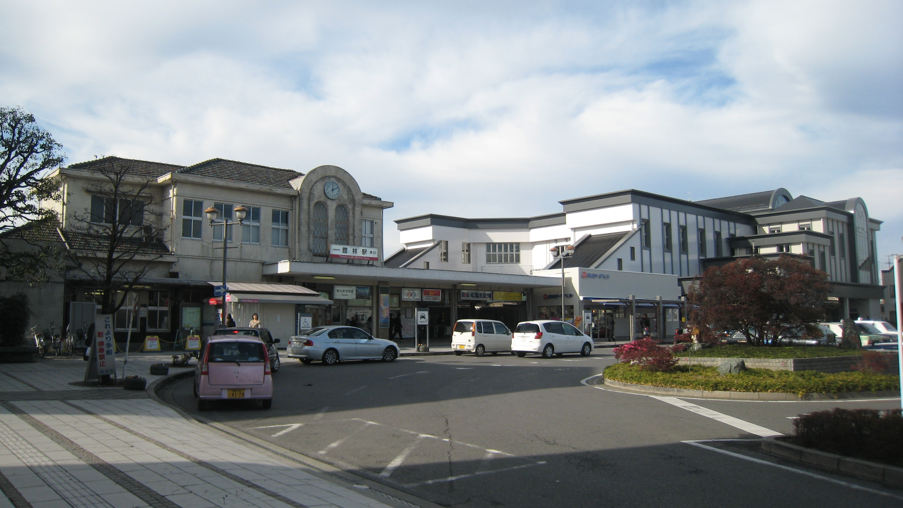 New Tatebayashi station building